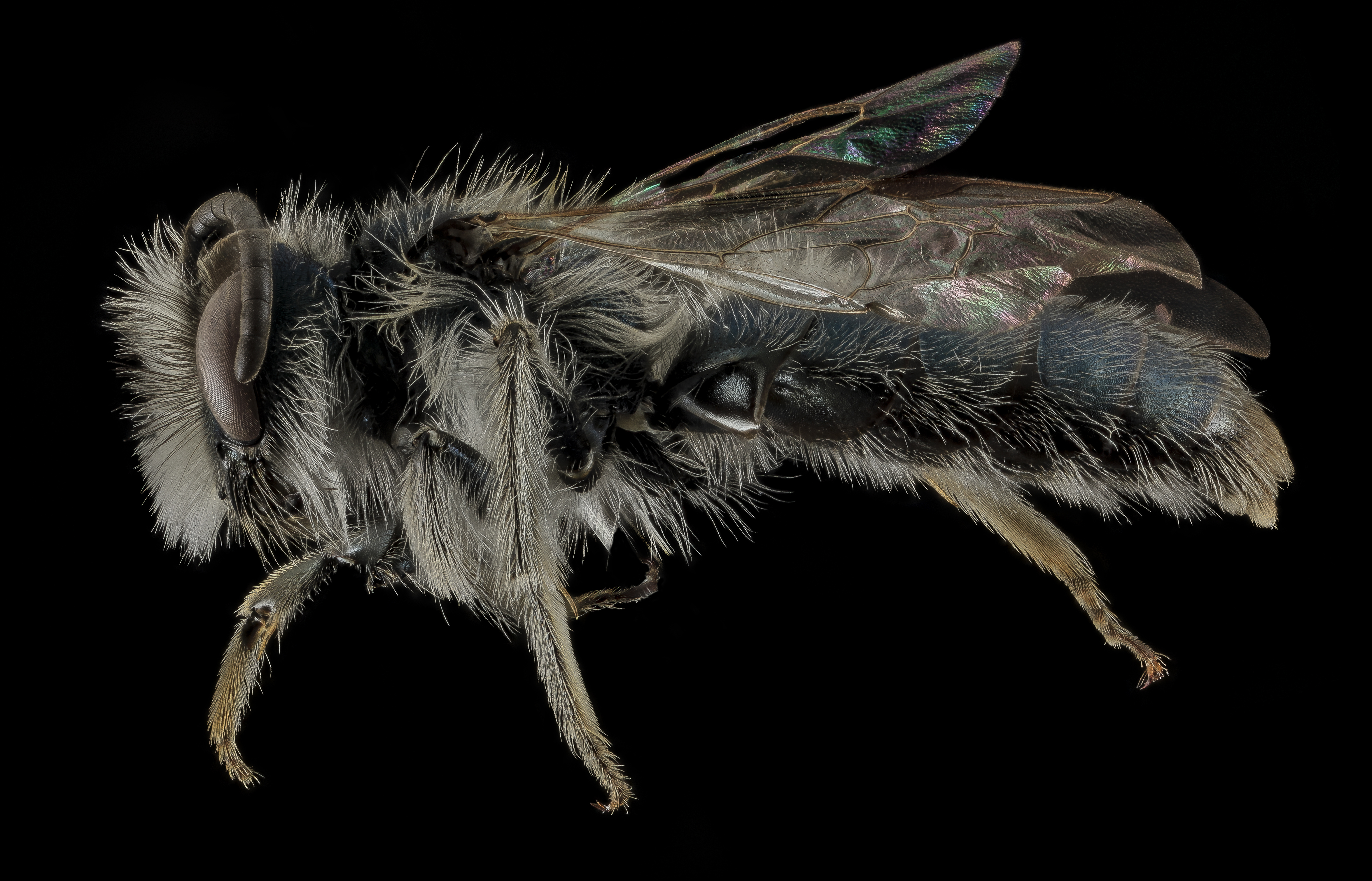 Andrena cuneilabris. The male of the previous shot, note the metallic blue overtones to the integument (skin) of this bee....an uncommon characteristic in the genus Andrena. Also note the stacking artifact where the antennae arches across the top of the head. This can be corrected for in the stacking process, but, frankly, we don't have the time and few people notice such things. If anyone is interested we have all the original stacks of our pictures...if you send a hard drive we will fill it up and send it back to you and you can run them however you like. This is a west coast Andrena....found, in this case, in Redwoods National Park right along the coast. Photo by Colby Francoeur. Canon Mark II 5D, Zerene Stacker, 65mm Canon MP-E 1-5X macro lens, Twin Macro Flash, F5.0, ISO 100, Shutter Speed 200, link to a .pdf of our set up is located in our profile